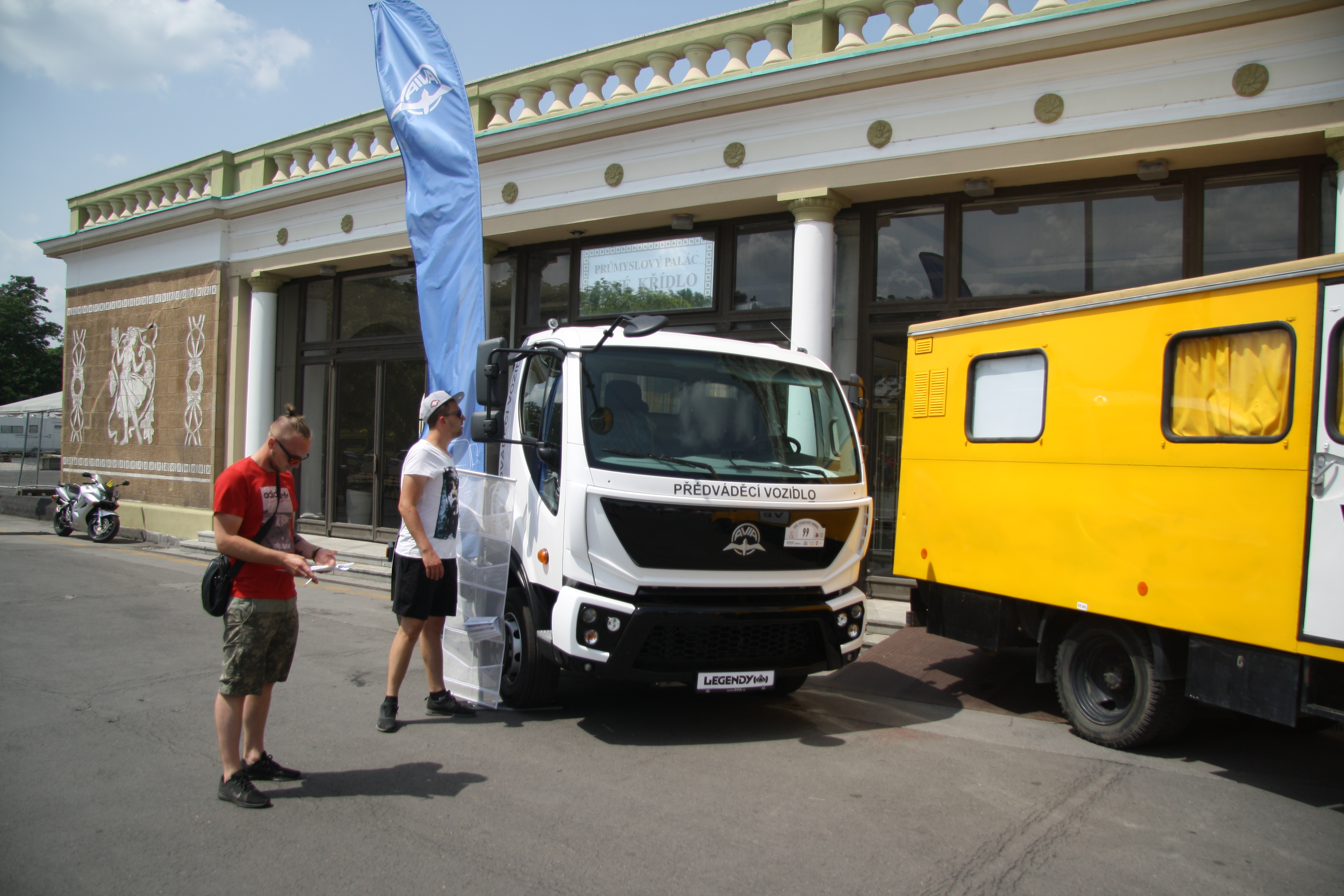 Avia D90 at Legendy 2018 in Prague.